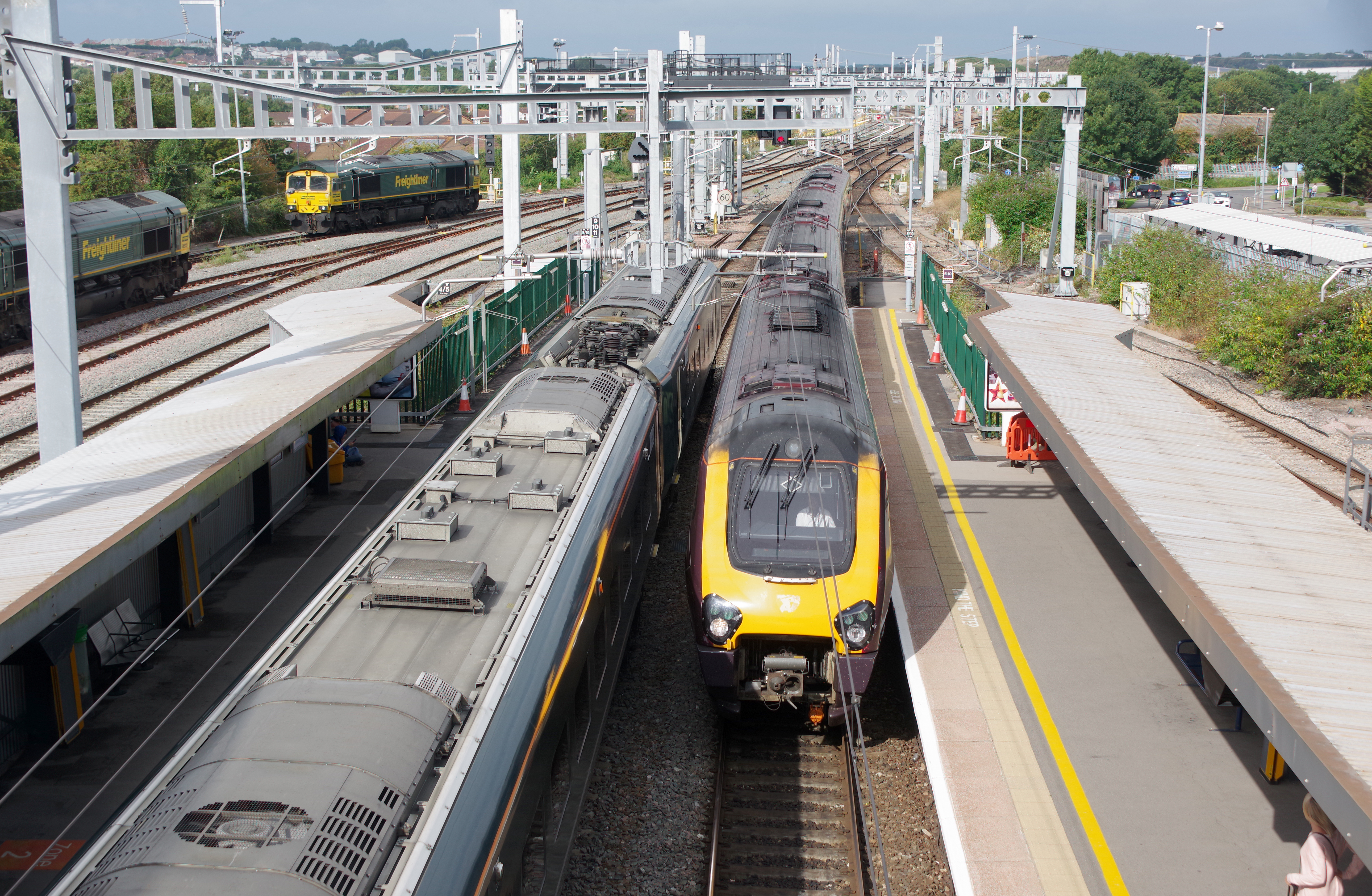 Trains cross paths at Bristol Parkway: on the left a First Great Western service for Pembroke Dock, headed by class 800 "Super Express Train" EDMU 800005; on the right CrossCountry class 220 "Voyager" DEMU 220016 with a northbound service.